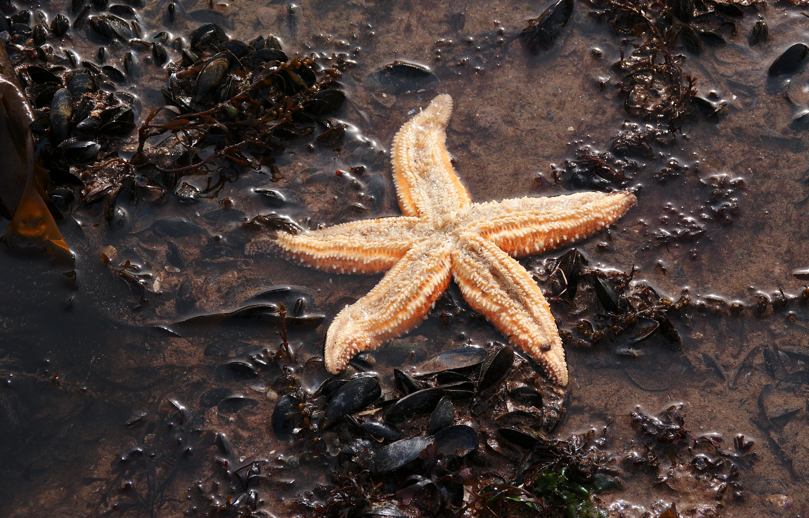 Common Starfish (Asterias rubens). This was taken at very low spring tide when the starfish was "caught" out of the water in South Devon, UK.